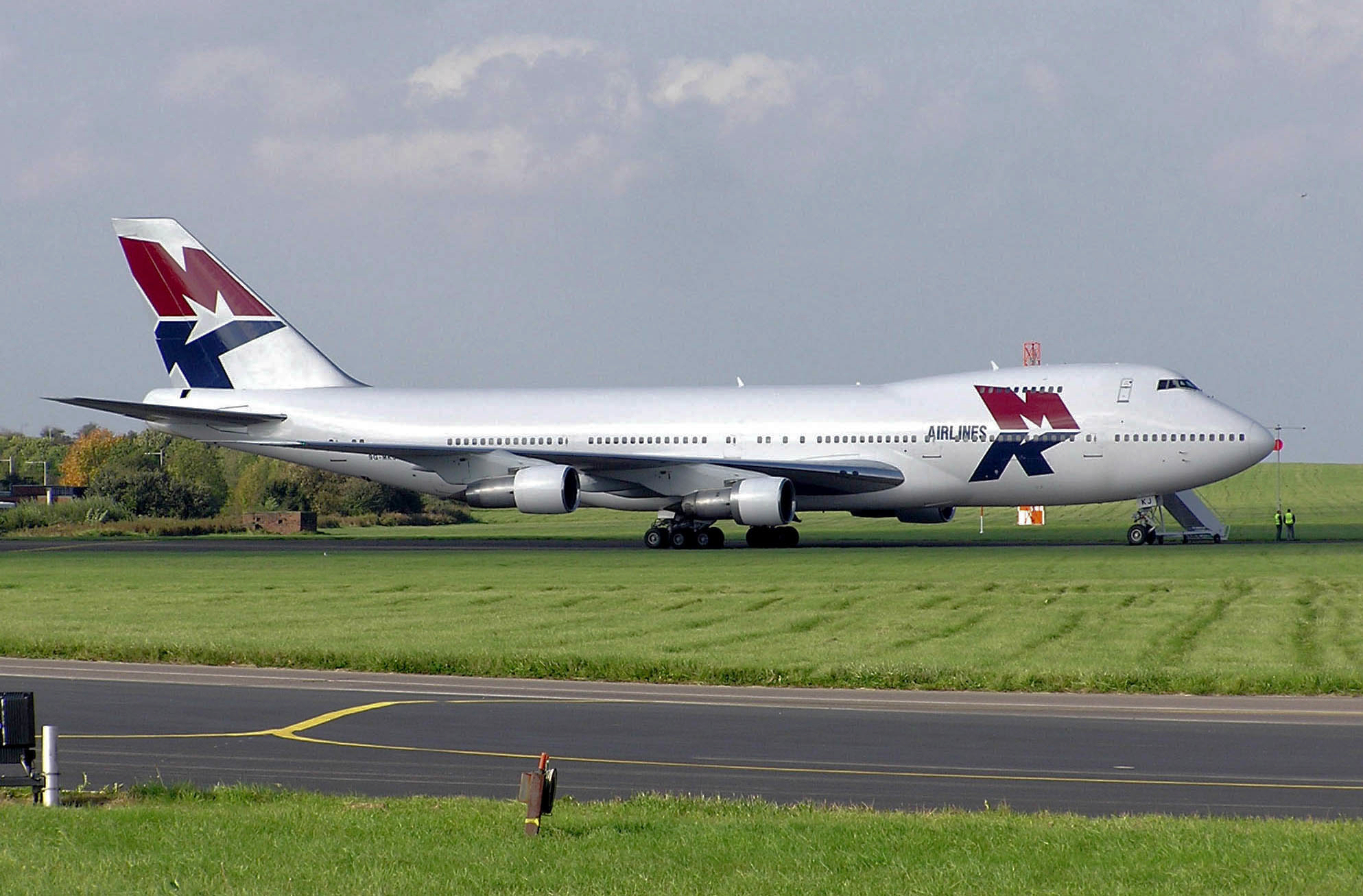 Boeing 747-200 of MK Airlines at Filton Airfield on 10th October 2004. Four days later, on 14th October, this aircraft crashed on take off from Halifax, Canada. All seven crew were killed and the aircraft destroyed.